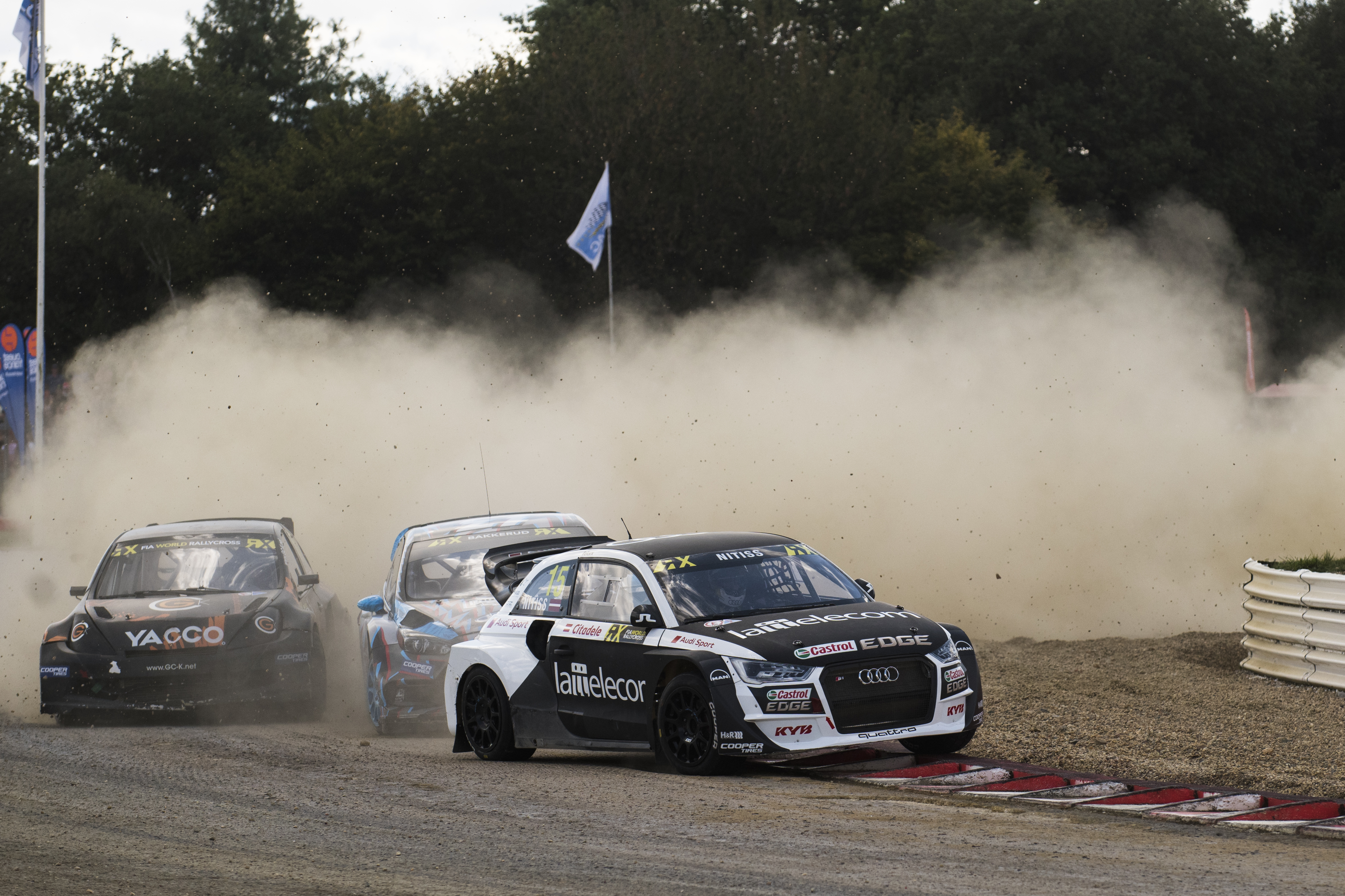 2017 FIA World Rallycross Championship // Round 09, Lohéac // Credit: EKS/Jaanus Ree